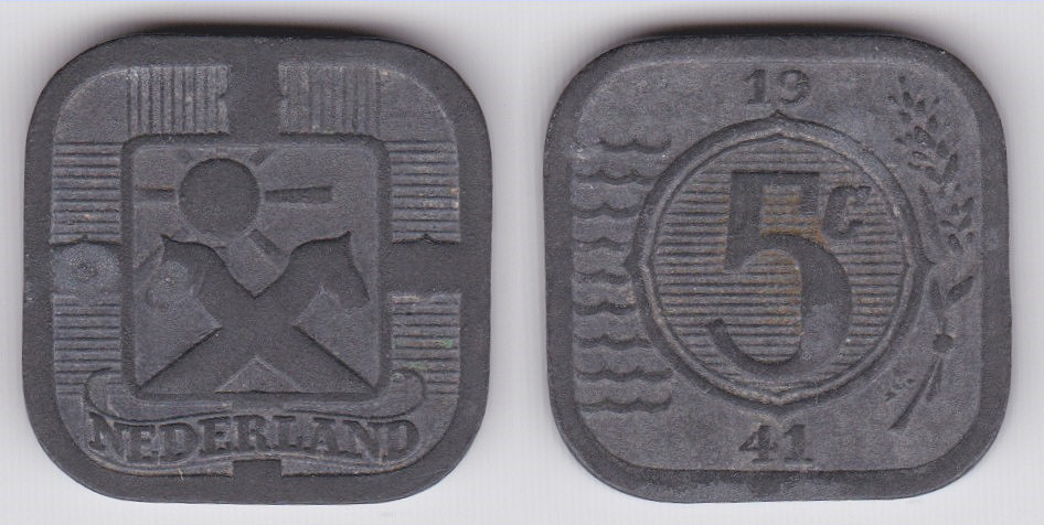 Netherlands under German occupation 1941, 5 Cent, 18x18 mm, zinc, square